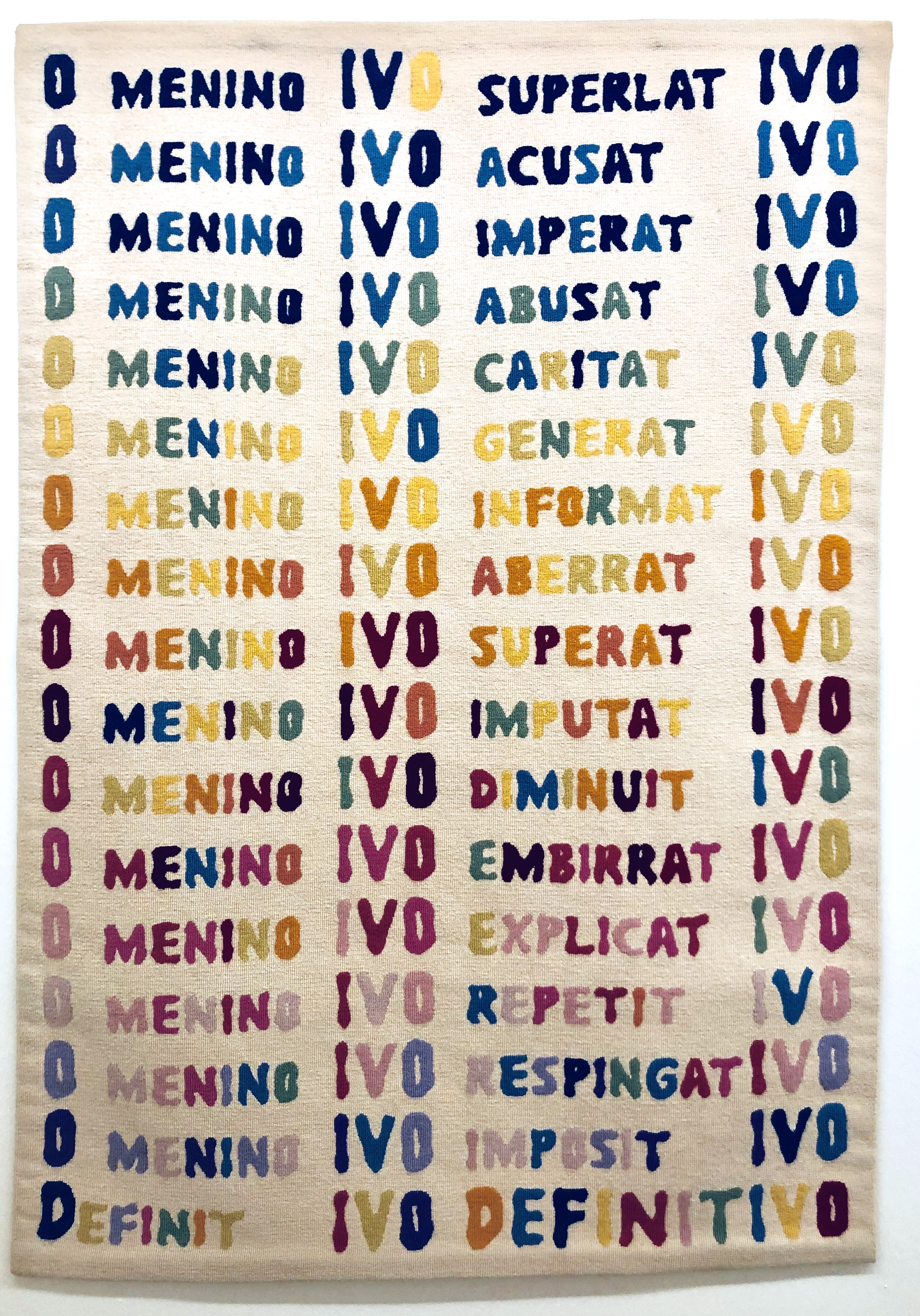 Poetry in tapestry